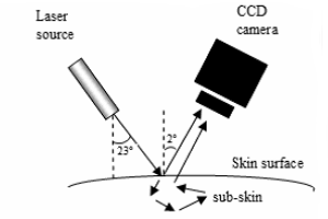 Diagram of an ILSC scan